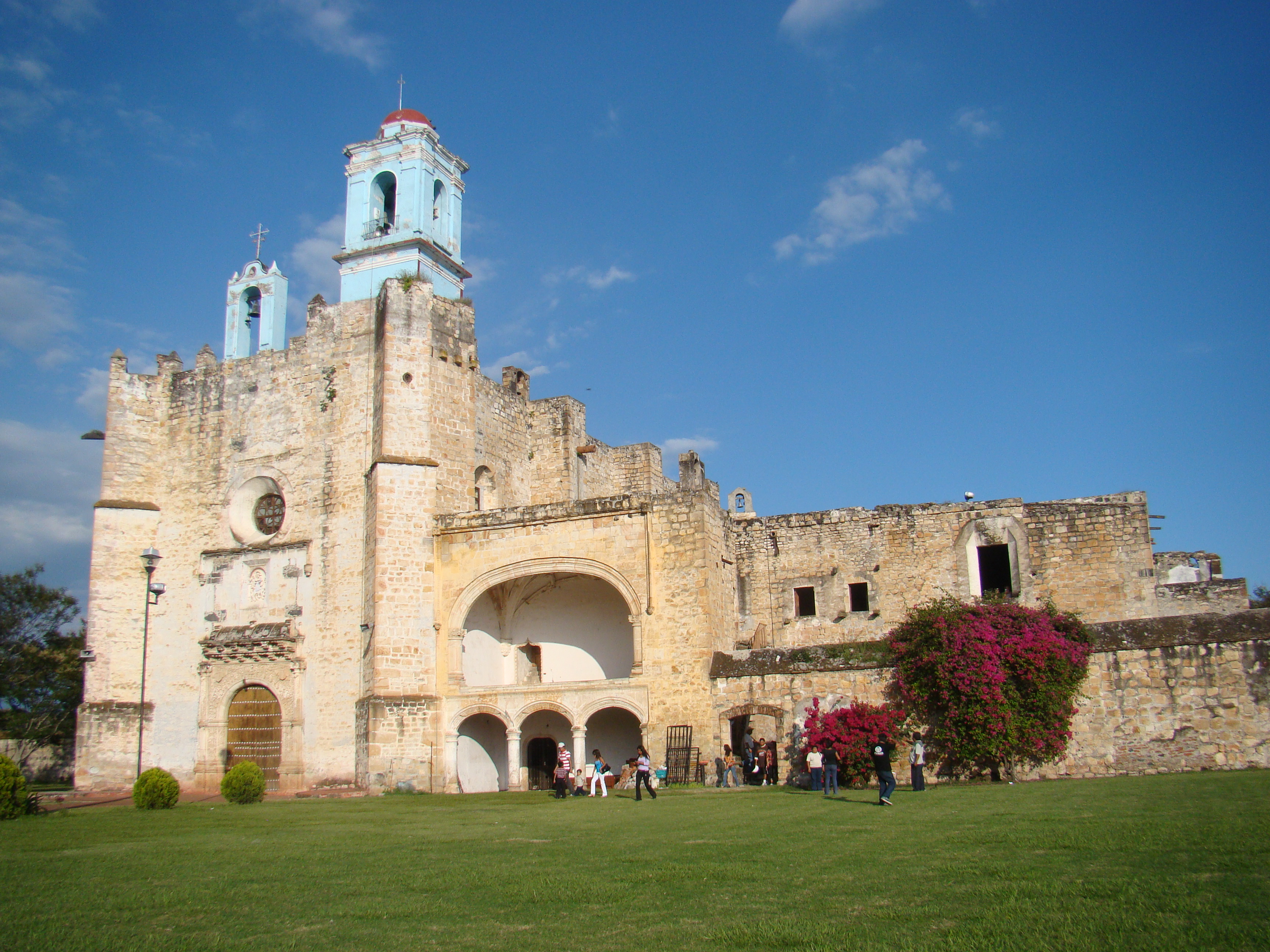 Ex-convento de San Martin Caballero in Huaquechula town